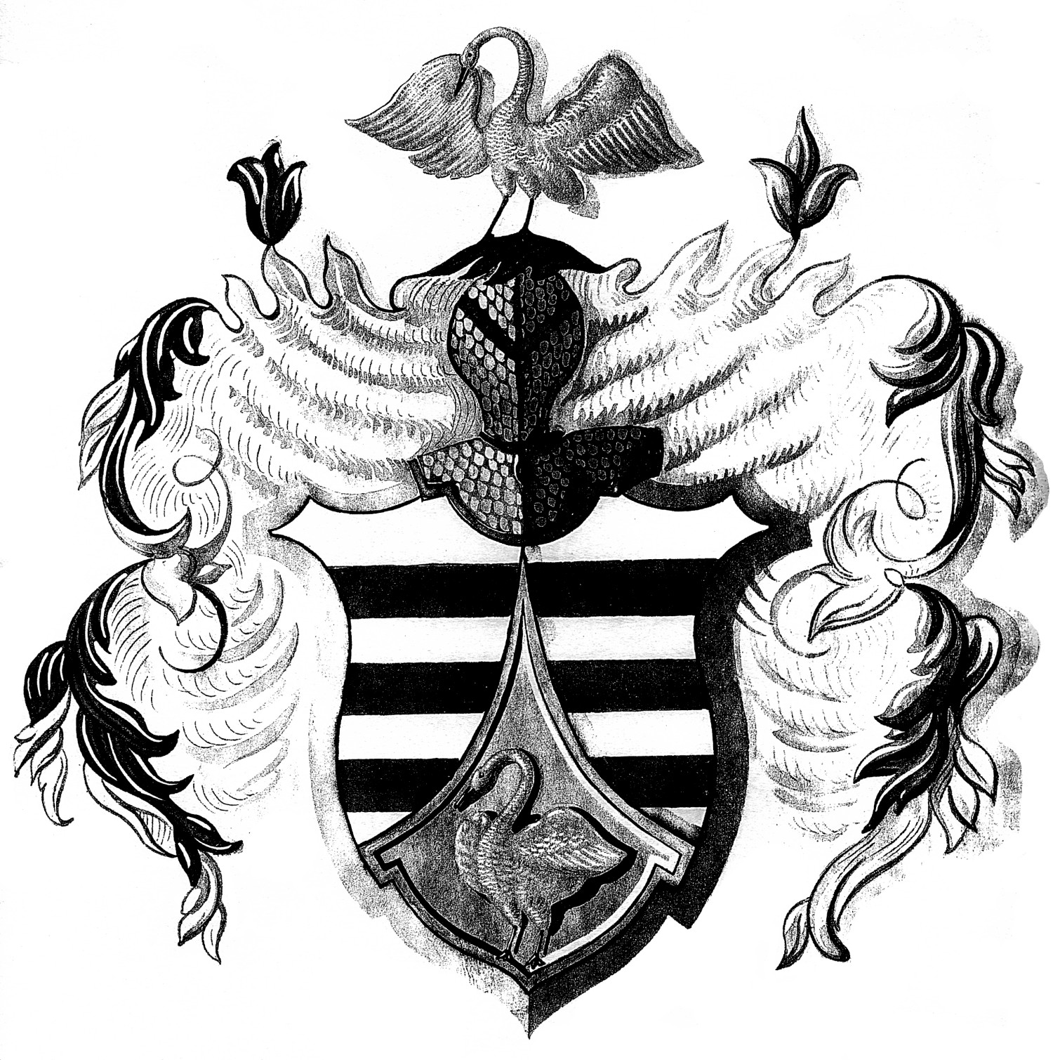 Wappen der Familie Hauck